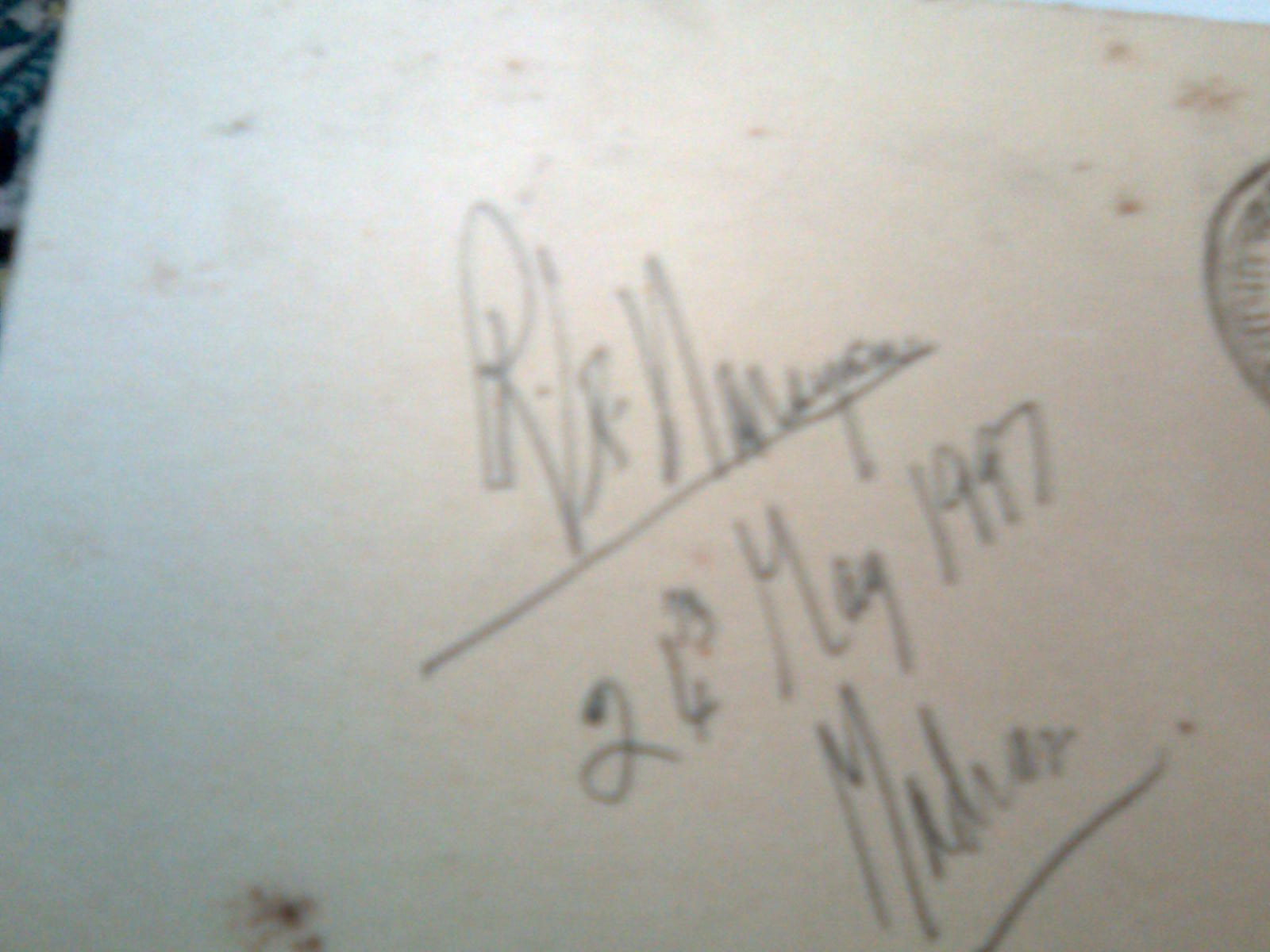 Autograph of R K Narayan